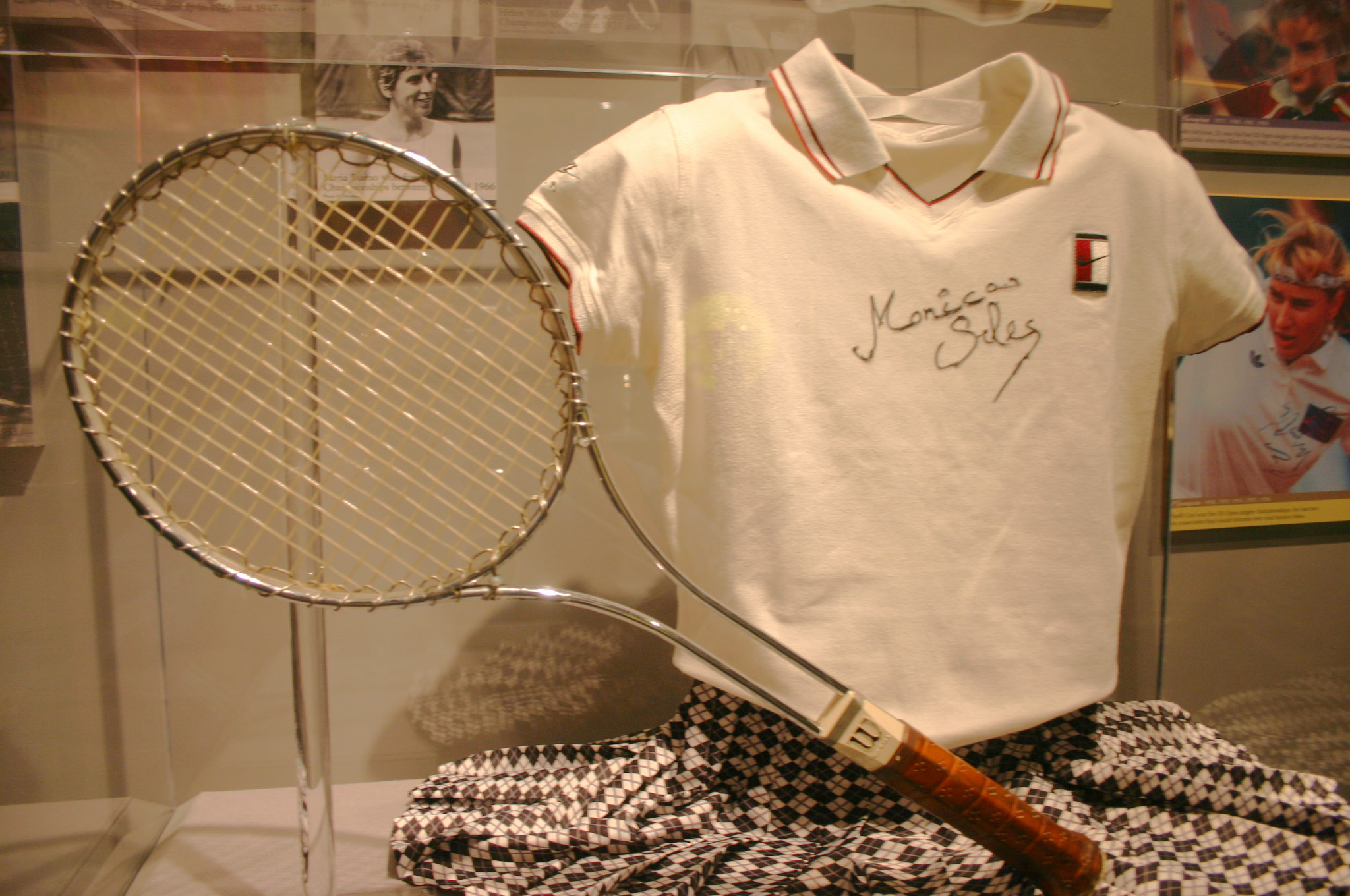 Outfit worn by Monica Seles at the 1995 US Open during her comeback to major competition after a 28 month absence from a stabbing attack in Hamburg, Germany in 1993. Wilson steel racquet T2000, used by Jimmy Connors. This is exhibited at the Tennis Hall of Fame Museum at the Newport Casino, Newport, RI.